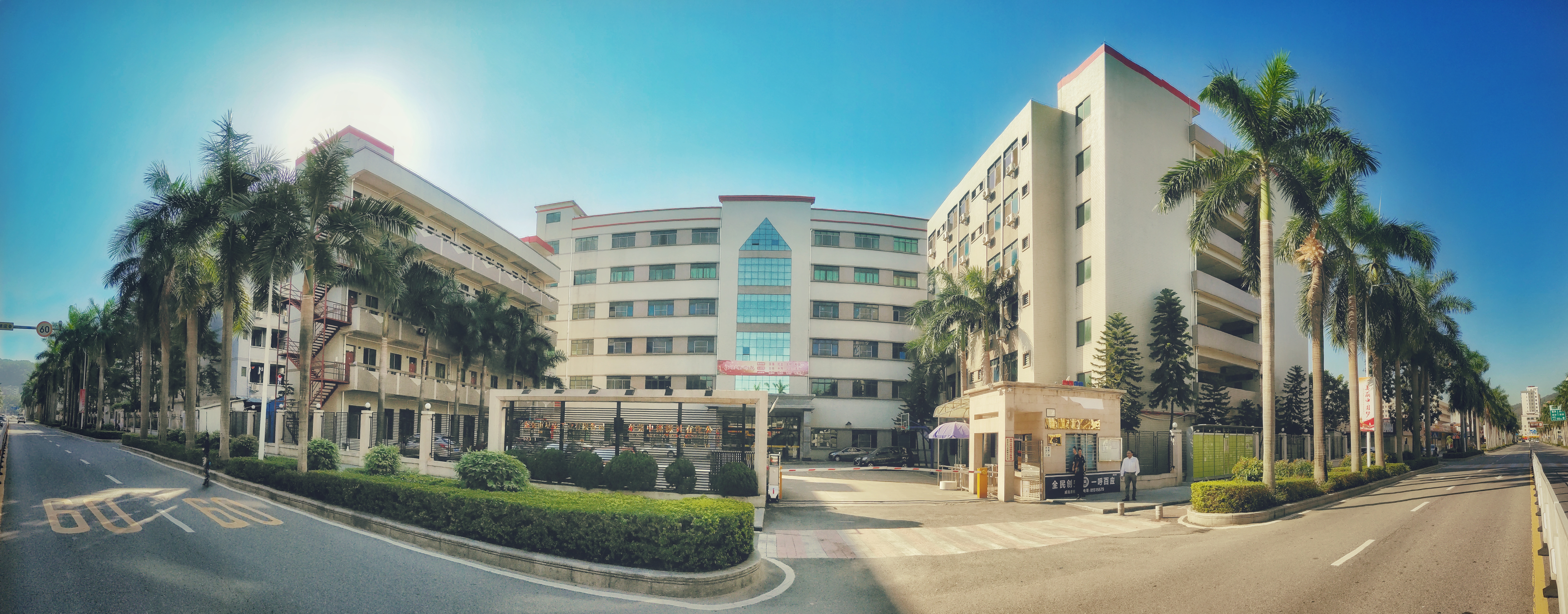 CCP Dongguan Factory Outside View